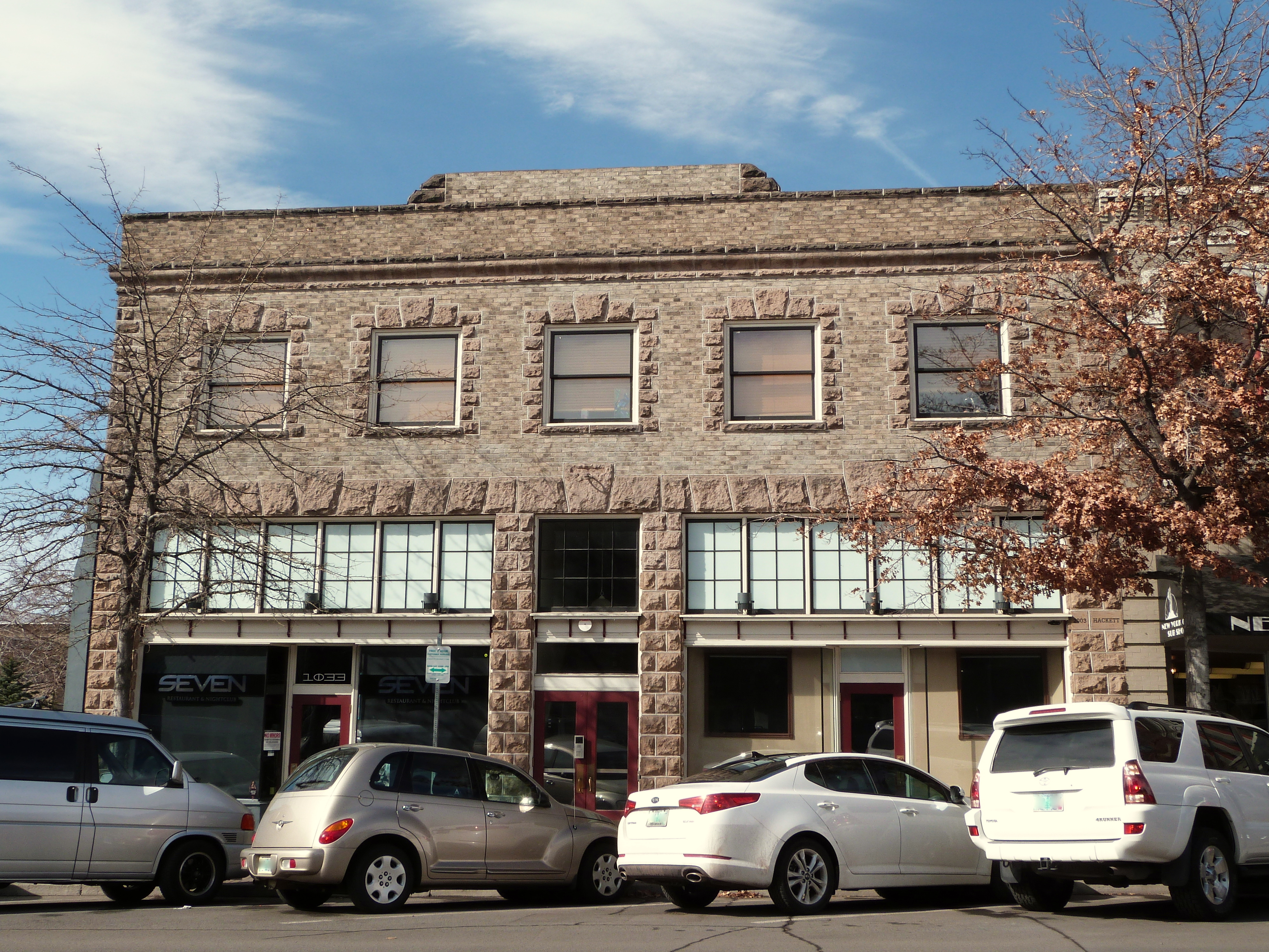 The historic Downing Building (built 1920), located at 1033-1035 Northwest Bond Street in Bend, Oregon, United States, is listed on the US National Register of Historic Places.